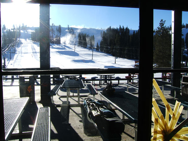 Boreal Ridge from the primary lodge's main dining area.